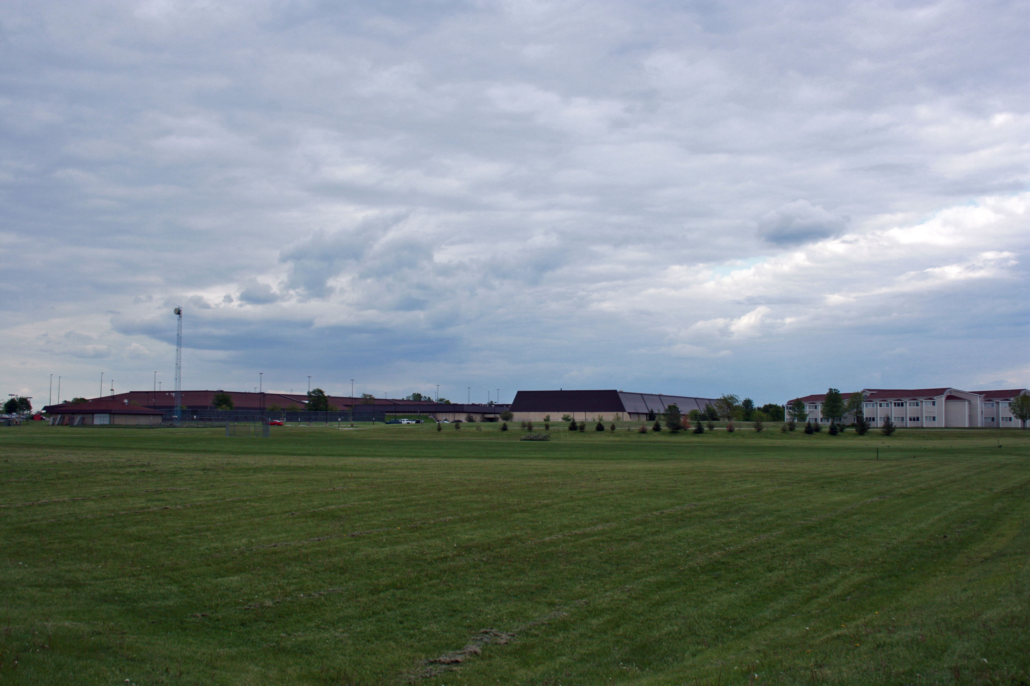 Illinois Mathematics and Science Academy campus